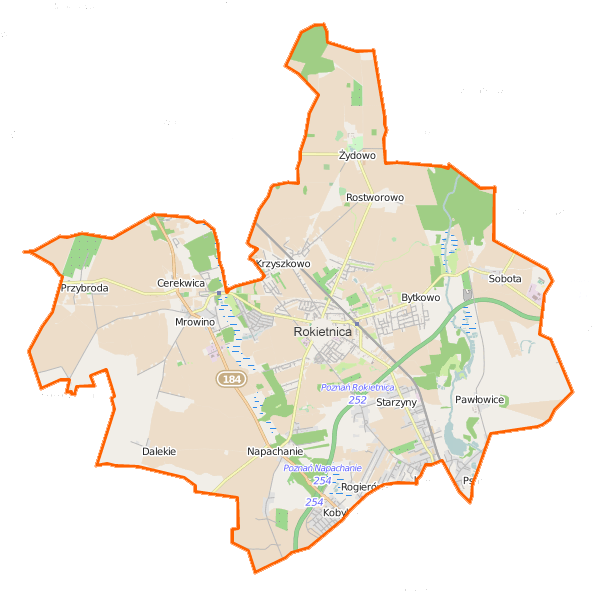 Map of Gmina Rokietnica, Poland This map of Rokietnica (gmina w województwie wielkopolskim) was created from OpenStreetMap project data, collected by the community. This map may be incomplete, and may contain errors. Don't rely solely on it for navigation. Border coordinates52.579716.6316←↕→16.835352.4560